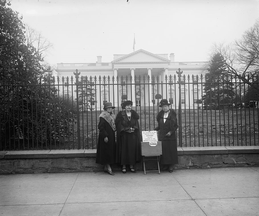 Mrs. Edna L. Johnson, Mrs. Kate Treholm[?] Arranes[?], Mrs. Geva[?] Ricker, Nat. League Women Voters, [White House, Washington, D.C.], 11/4/24